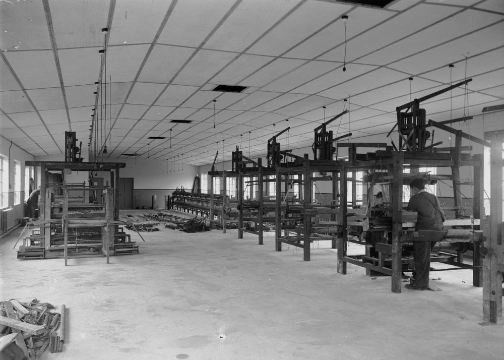 Abstract: Textile machinery at Cambrian Factory, Llanwrtyd